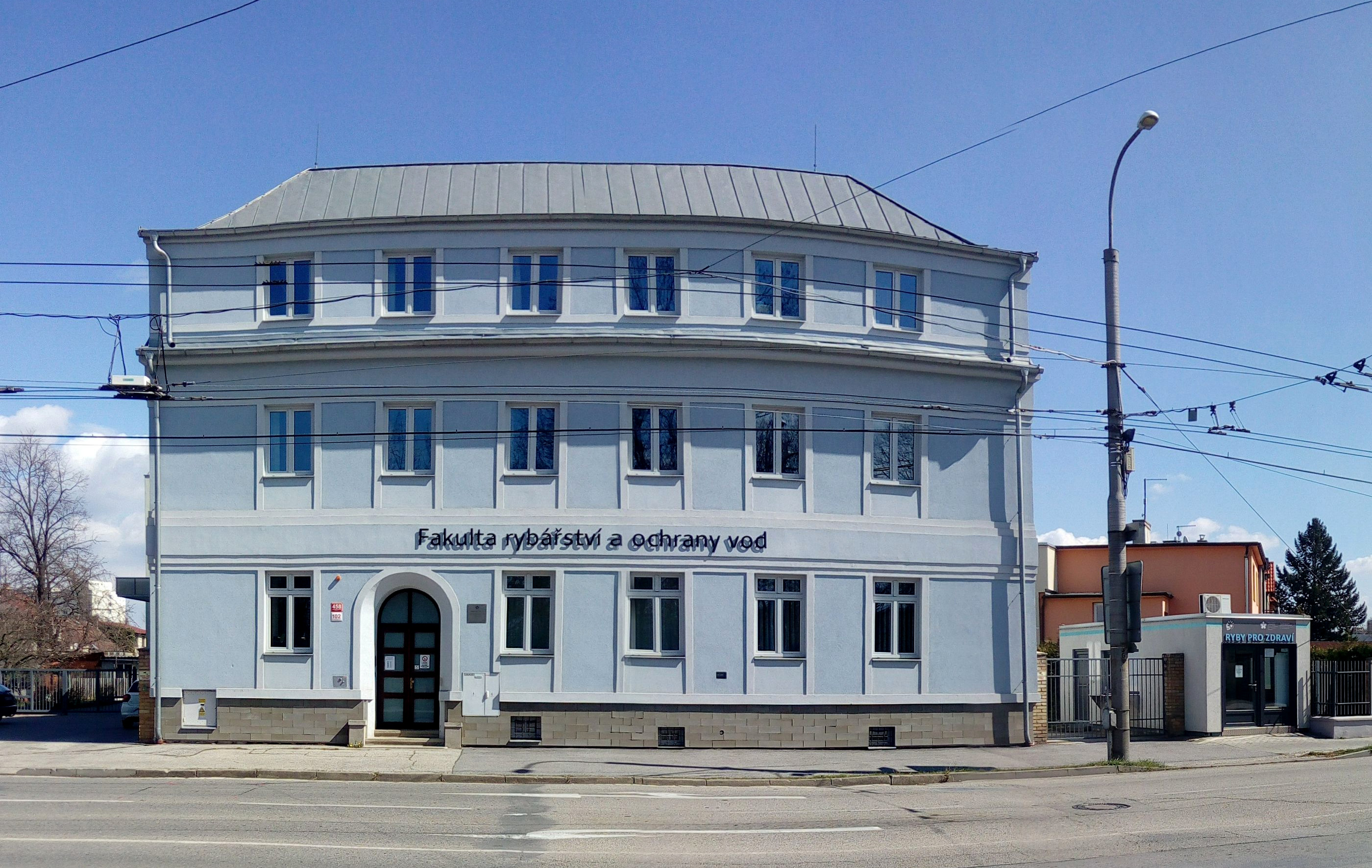 Building of the Faculty of Fisheries and Protection of Waters in Čtyři Dvory, České Budějovice, South Bohemian Region, Czech Republic